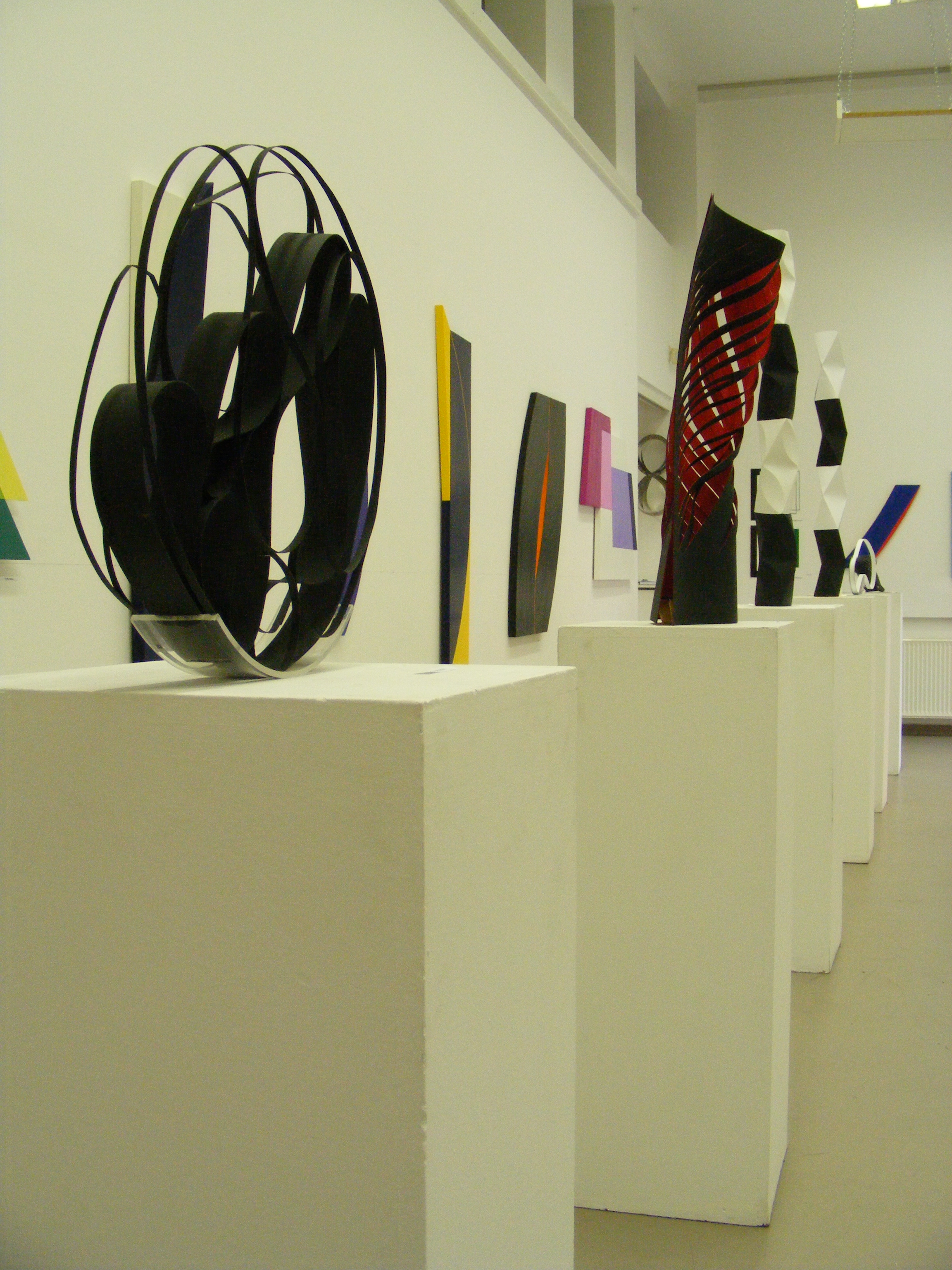 The expo of the Szerencs Artist Camp at Budapest in 2009